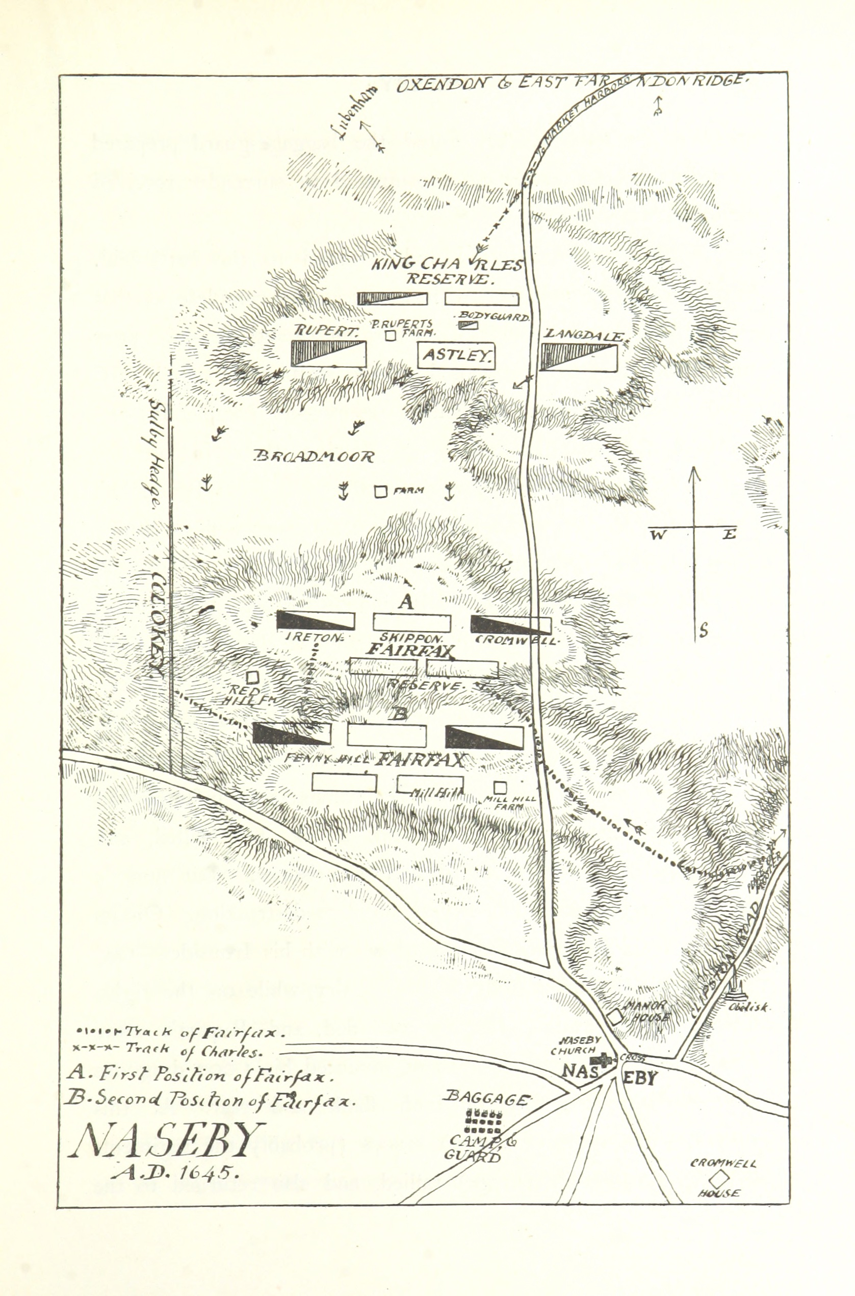 View this map on the BL Georeferencer service. Image taken from: Title: "Battles and Battlefields in England ... Illustrated by the author. With an introduction by H. D. Traill" Author: BARRETT, Charles Raymond Booth. Contributor: TRAILL, Henry Duff. Shelfmark: "British Library HMNTS 9503.ee.19." Page: 411 Place of Publishing: London Date of Publishing: 1896 Publisher: Innes & Co. Issuance: monographic Identifier: 000209253 Explore: Find this item in the British Library catalogue, 'Explore'. Download the PDF for this book (volume: 0) Image found on book scan 411 (NB not necessarily a page number) Download the OCR-derived text for this volume: (plain text) or (json) Click here to see all the illustrations in this book and click here to browse other illustrations published in books in the same year. Order a higher quality version from here.